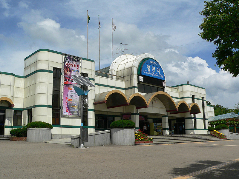 KORAIL Yeongdong Station